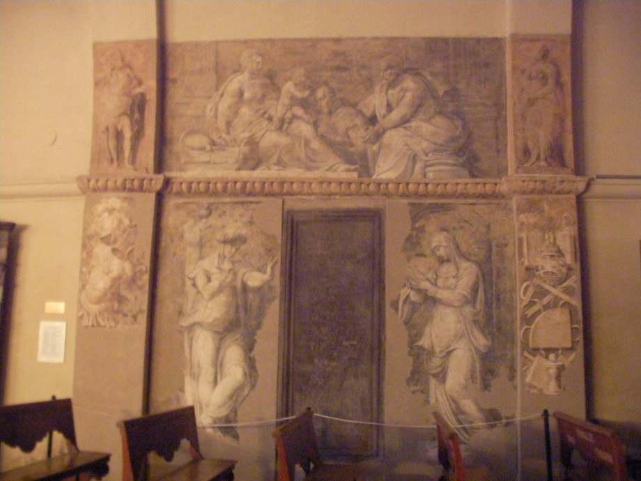 The frescos in cleardark color around the sepulchre of Fra Sabba realized by Francesco Menzocchi